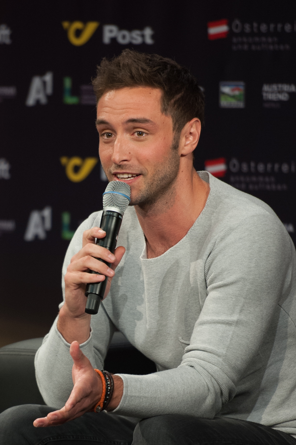 Eurovision Song Contest Vienna 2015: Måns Zelmerlöw